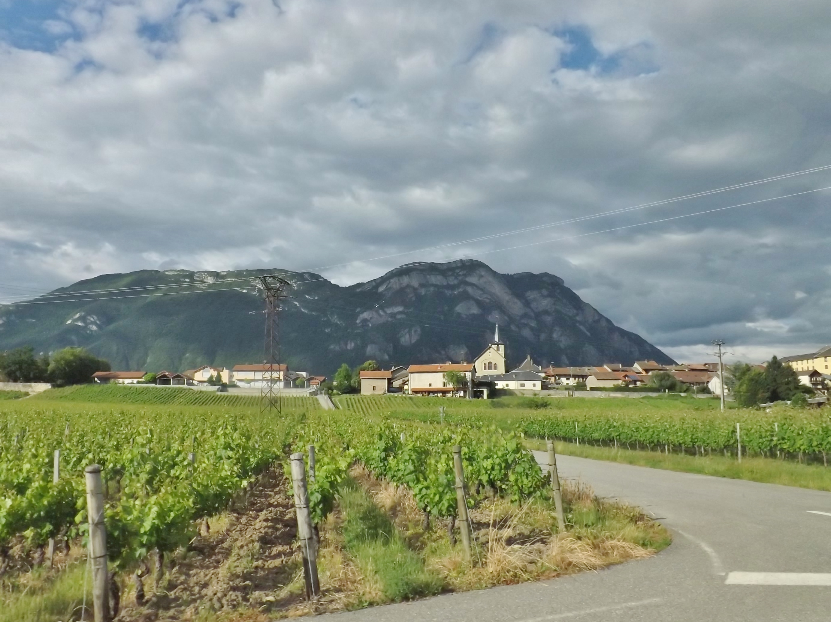 Sight of the French village of Les Marches and its vineyards, with at the background the southern end of the Bauges mountains, in Savoie.